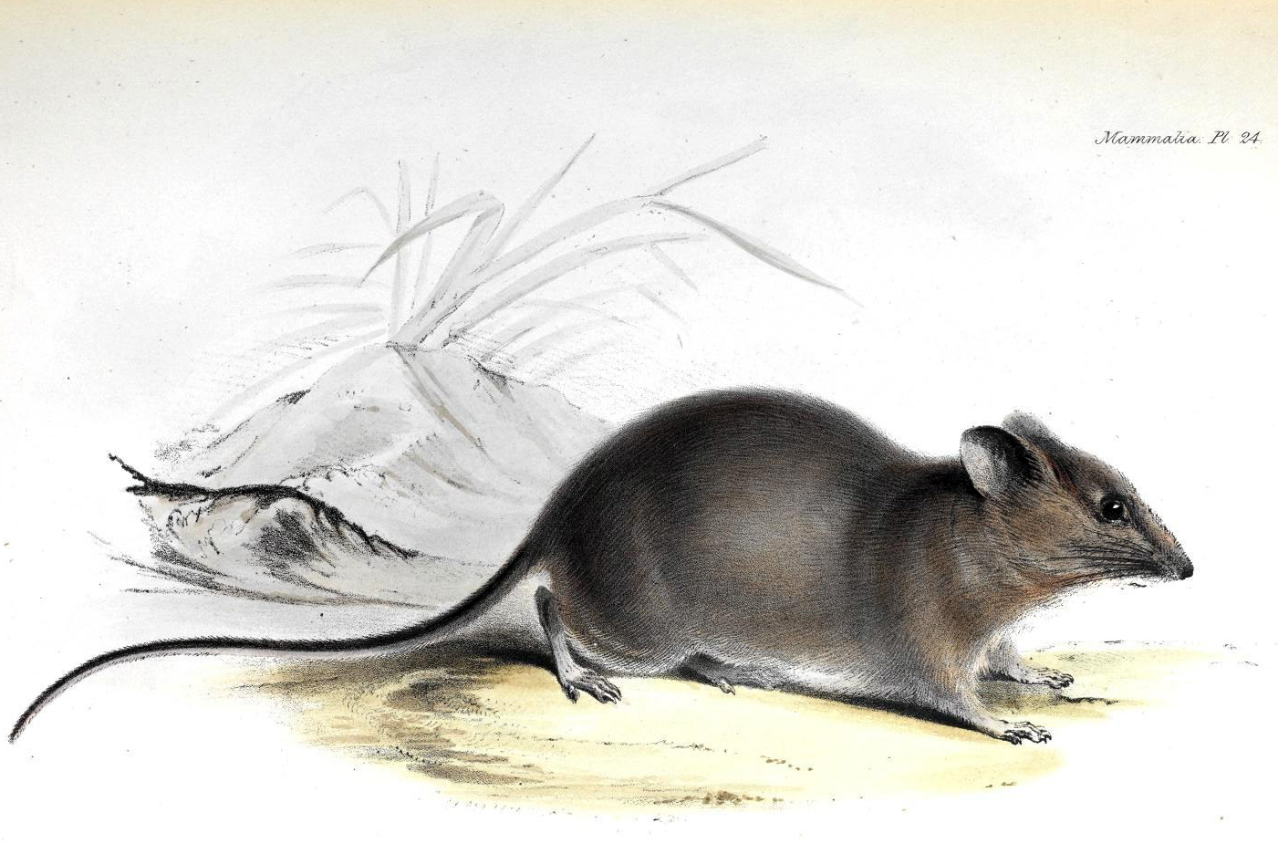 Galapagos Rice-Rat (Aegialomys galapagoensis galapagoensis) Depiction from 'The Zoology of the Voyage of H.M.S. Beagle' by Richard Owen from the years 1838 to 1843